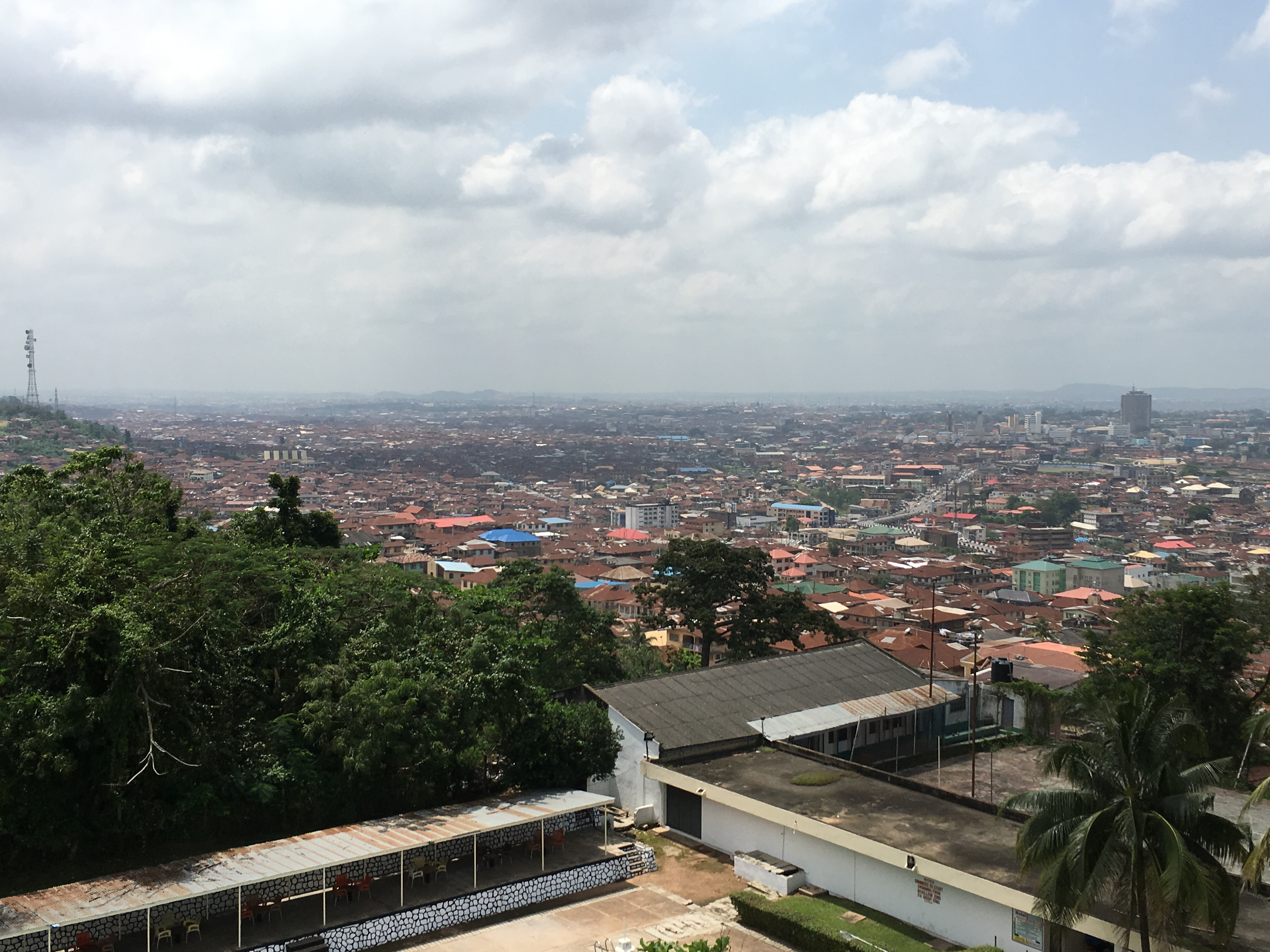 Overlooking the city of Ibadan, one of the oldest cities in Nigeria. Well known for 'brown roofs', depicting the age of its structures. This is an image from Nigeria